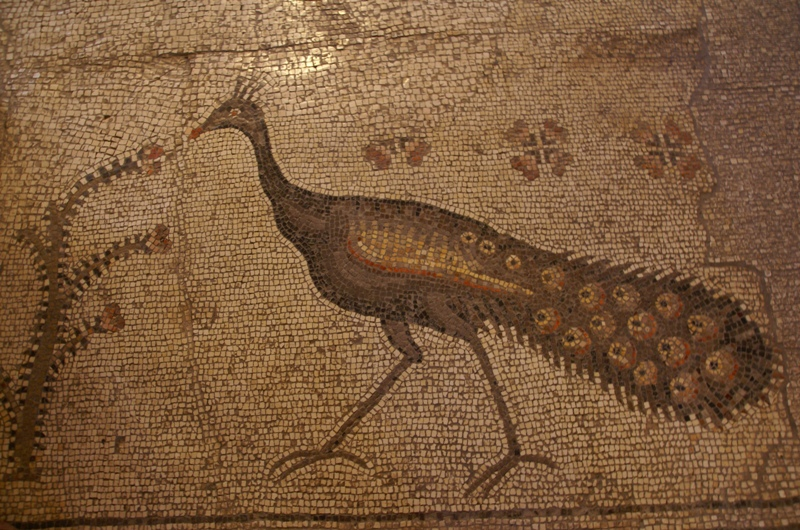 Church of the Multiplication, Tabgha, Israel - mosaic detail